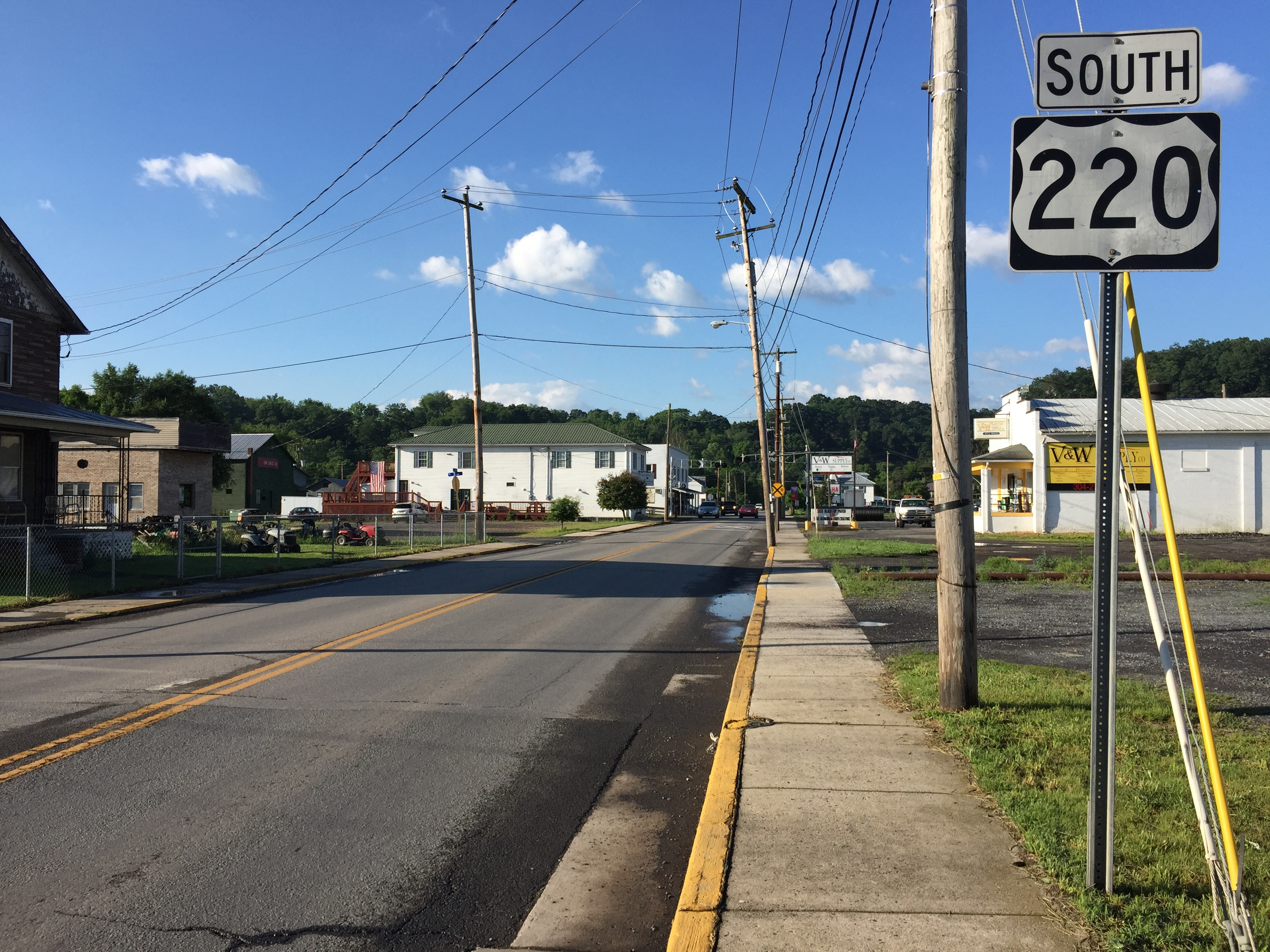 View south along U.S. Route 220 (South Main Street) near Potomac Avenue in Petersburg, Grant County, West Virginia